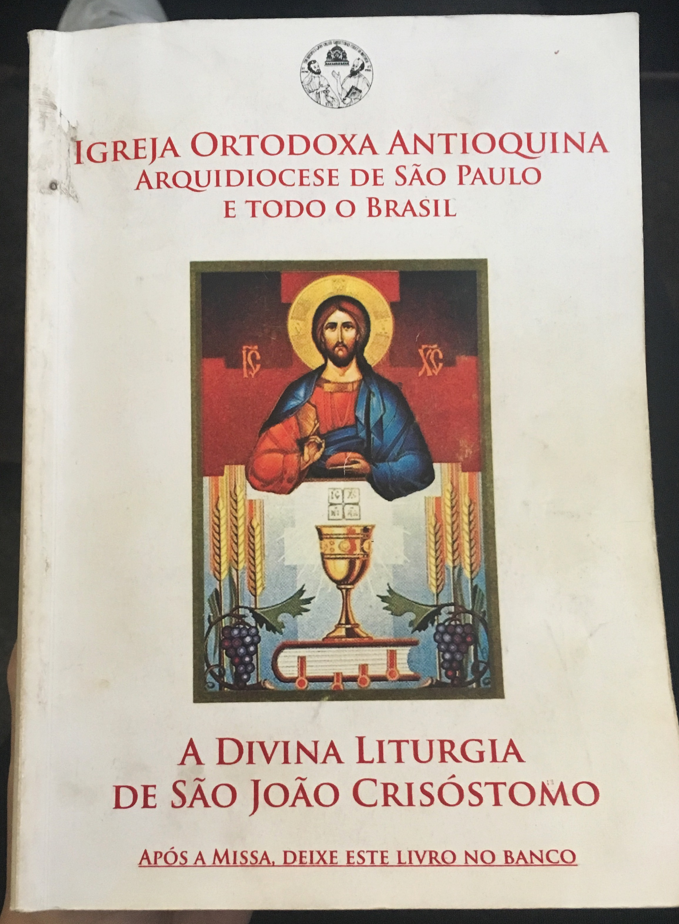 Liturgia de São João Crisóstomo para acompanhar a missa.